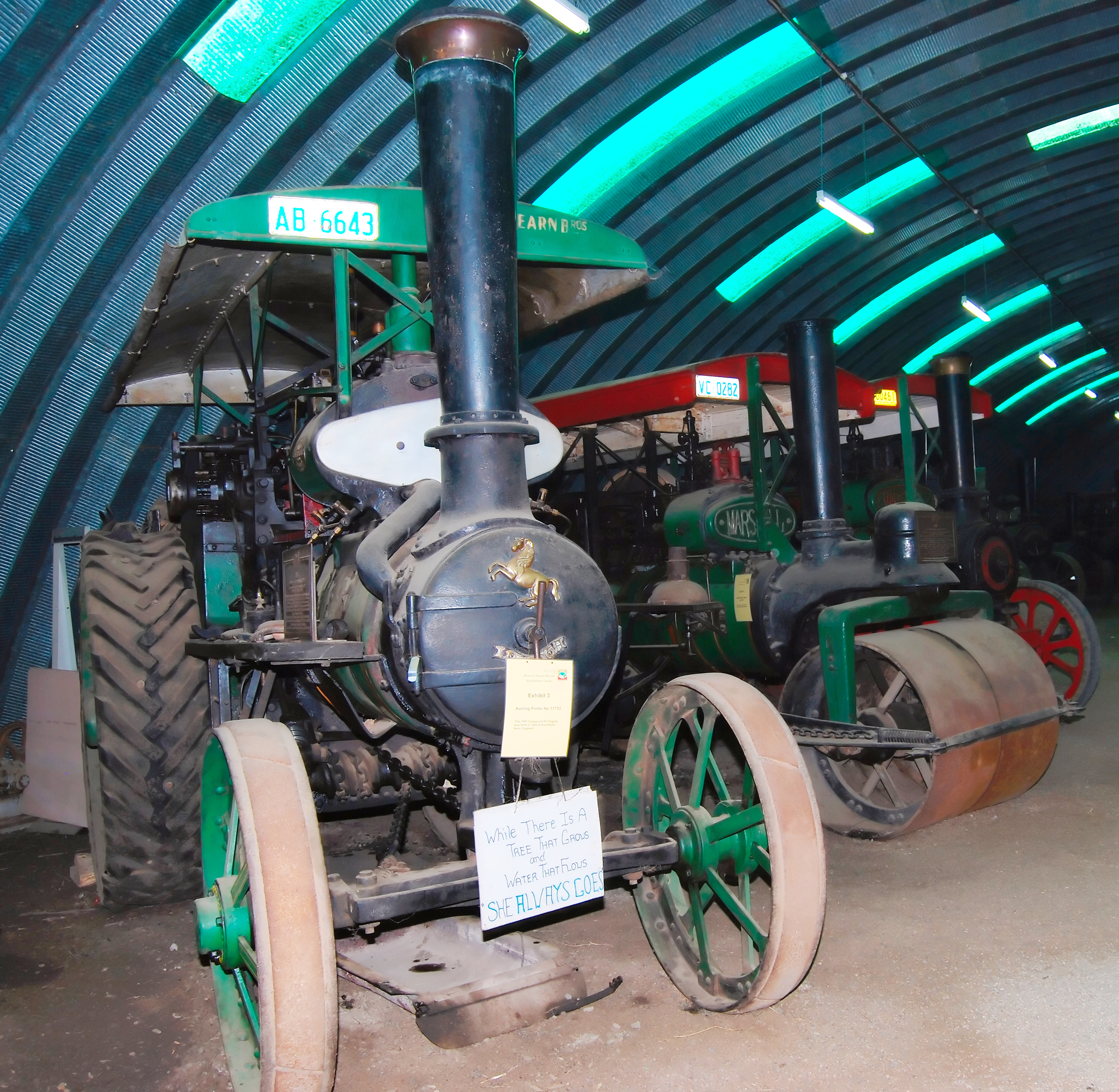 Interion of Pearn's Steam World, Westbury, Tasmania, Australia